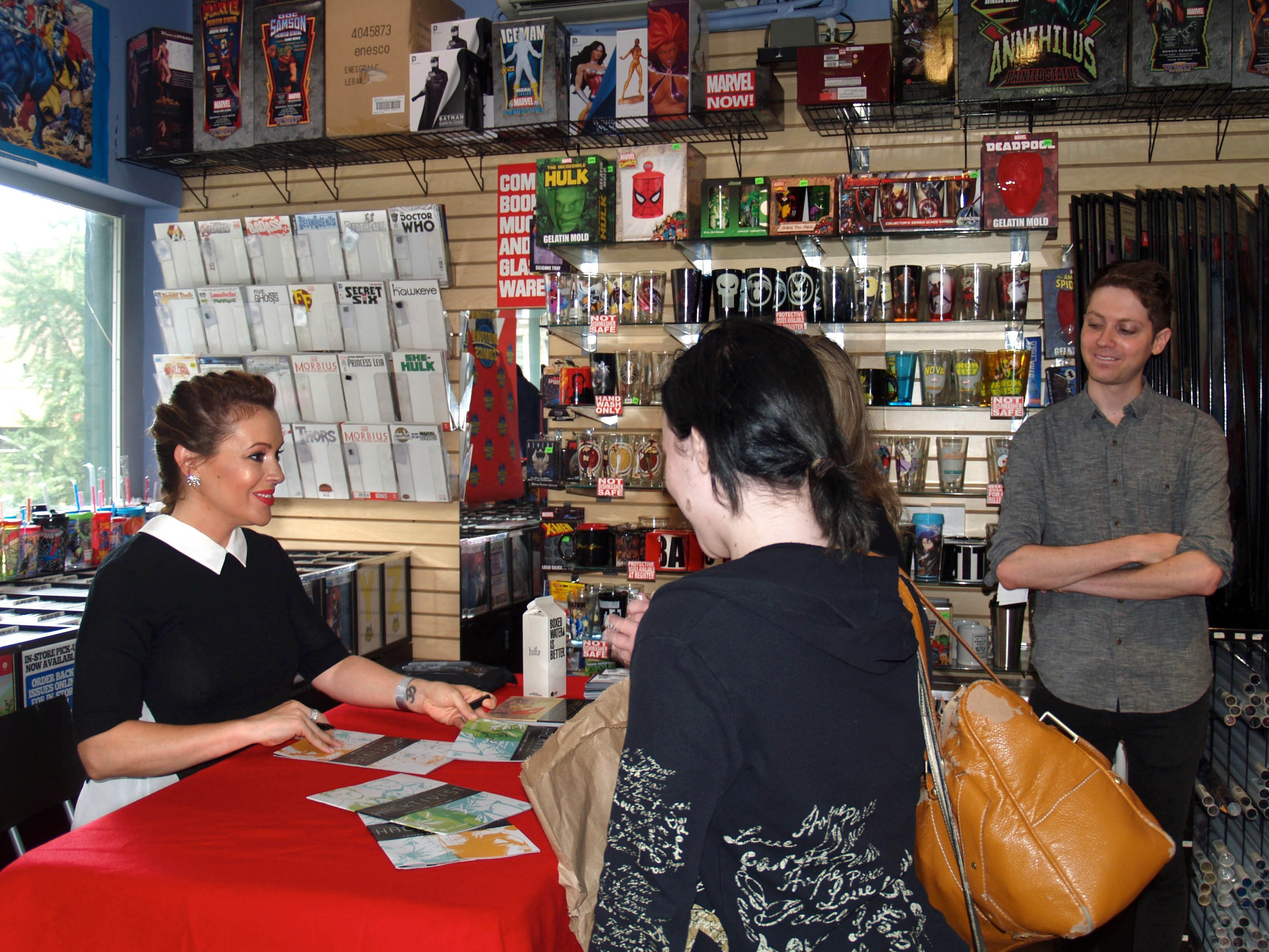 Actress Alyssa Milano at a September 12, 2015 book signing at Midtown Comics Downtown in Manhattan for her graphic novel, Hacktivist. The man in the background at right is Midtown Marketing and Events Coordinator Andrew Cohen. This photo was created by Luigi Novi. It is not in the public domain, and use of this file outside of the licensing terms is a copyright violation.